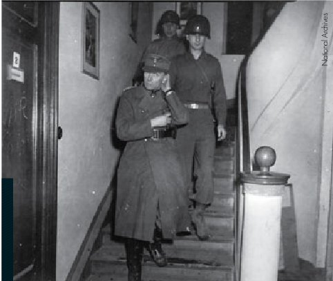 General der Kavallerie (Lt. Gen.) Edwin Graf Rothkirch und Trach, who had commanded the German LIII Corps, in the custody of members of the 37th Tank Battalion on 6 March 1945, the day of his capture, west of Coblenz, Germany.